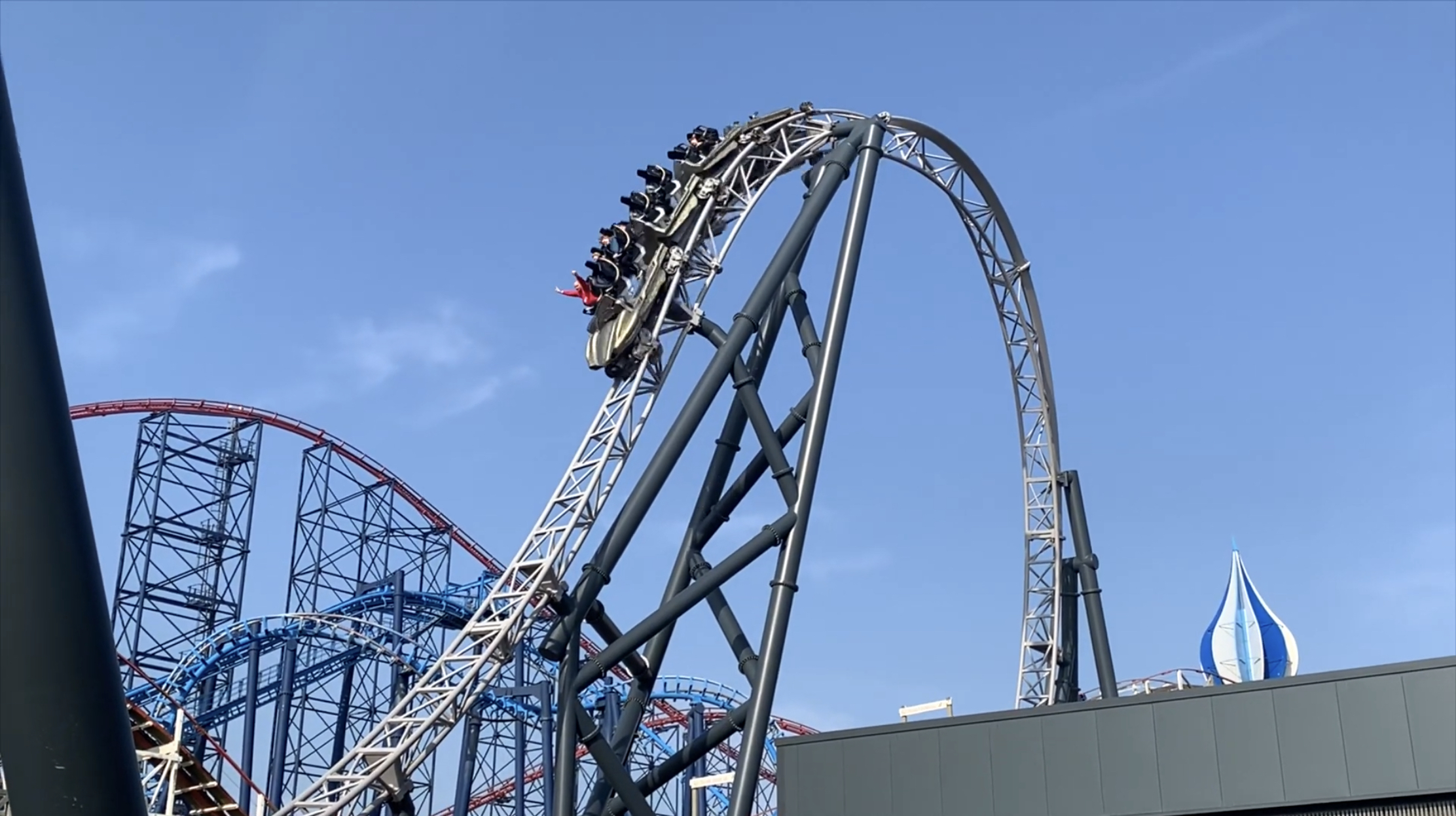 icon's Junior Immelman